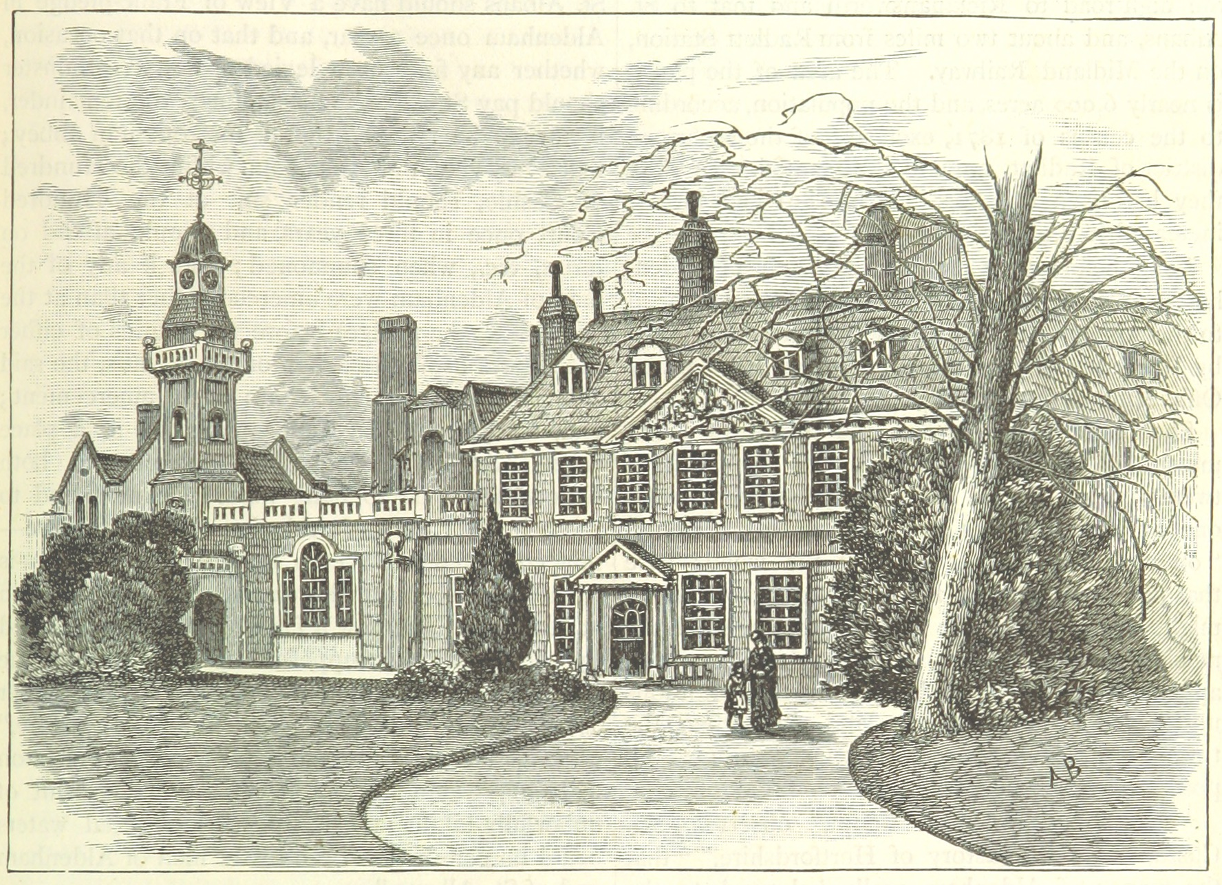 Aldenham House taken from page 331 of Greater London - A Narrative of Its History, its People, and its Places, (Vol. 3) by Edward Walford (British Library HMNTS 10348.h.11)